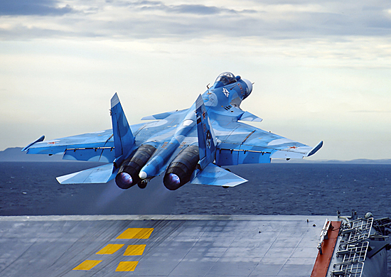 The 279th separate naval fighter regiment (Murmansk Region)